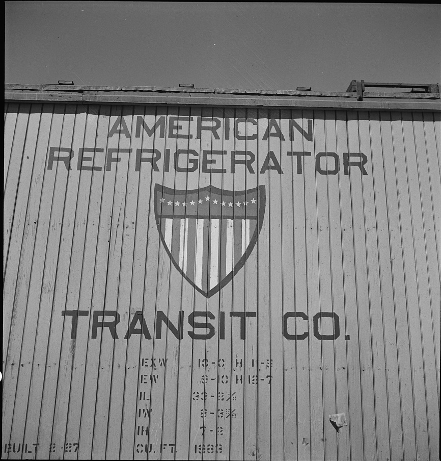 Title: San Bernardino, California. Data on a car of the American Refrigerator Transit Company (Cropped by the uploader) Creator(s): Delano, Jack, photographer Date Created/Published: 1943 Mar. Medium: 1 negative : nitrate ; 2 1/4 x 2 1/4 inches or smaller. Reproduction Number: LC-USW3-021556-E (b&w film nitrate neg.) LC-DIG-fsa-8d27616 (digital file from original neg.) Rights Advisory: No known restrictions. For information, see U.S. Farm Security Administration/Office of War Information Black & White Photographs( Call Number: LC-USW3- 021556-E [P&P] Other Number: J 52134 Repository: Library of Congress Prints and Photographs Division Washington, D.C. 20540